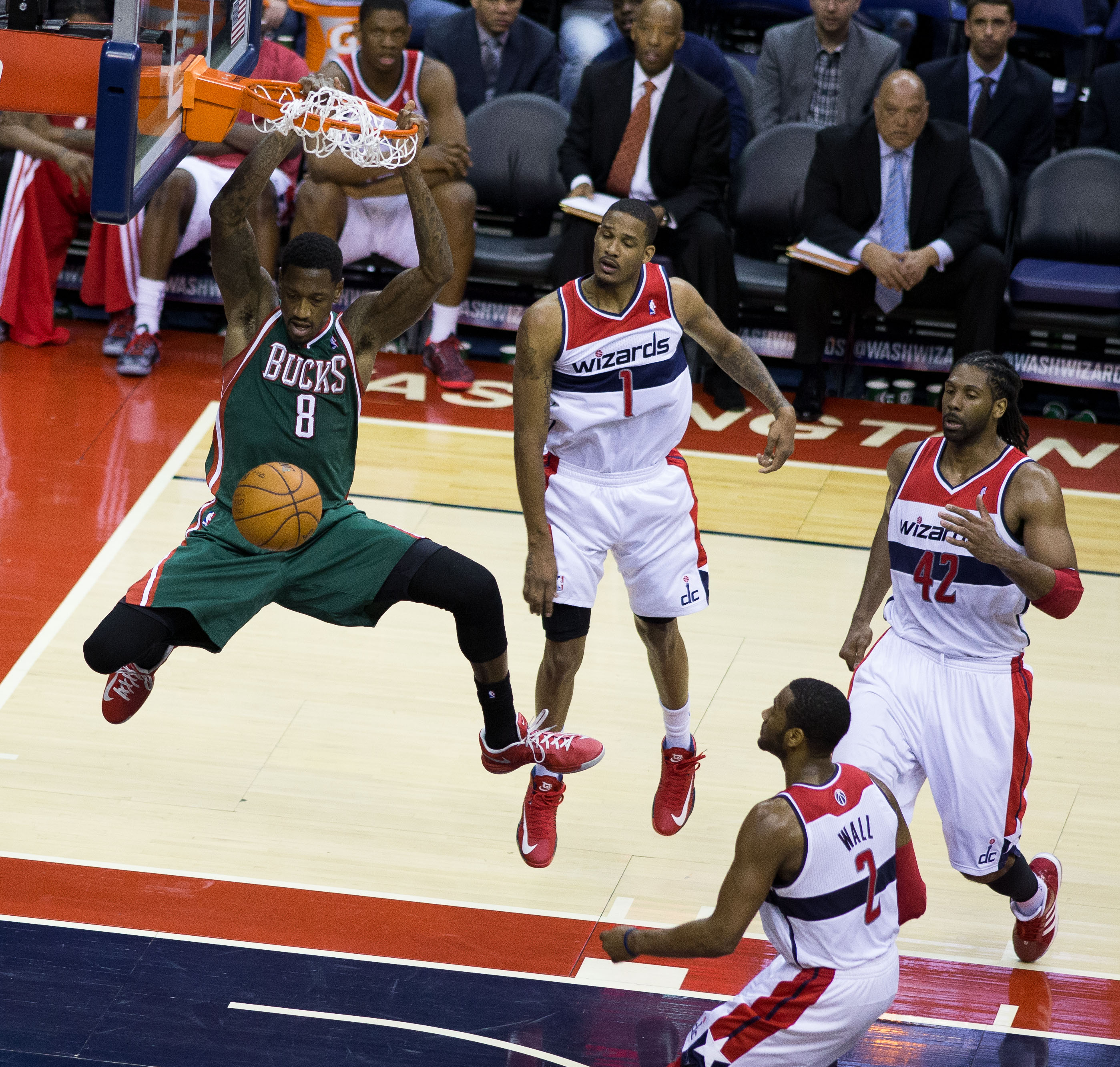 Milwaukee Bucks at Washington Wizards March 13, 2013